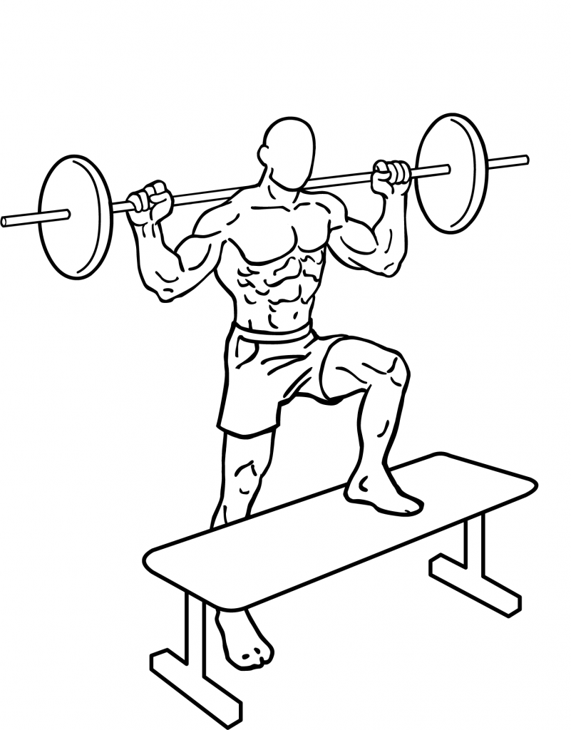 an exercise of hip and thigh